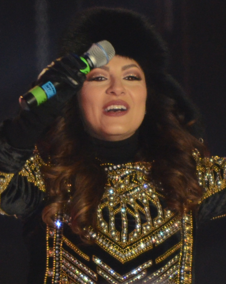 Romanian singer Andra. Cropped from File:Andra (dec 2015) - 2.JPG.